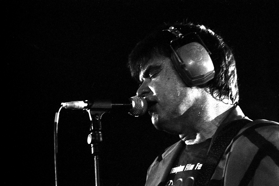 Mission of Burma